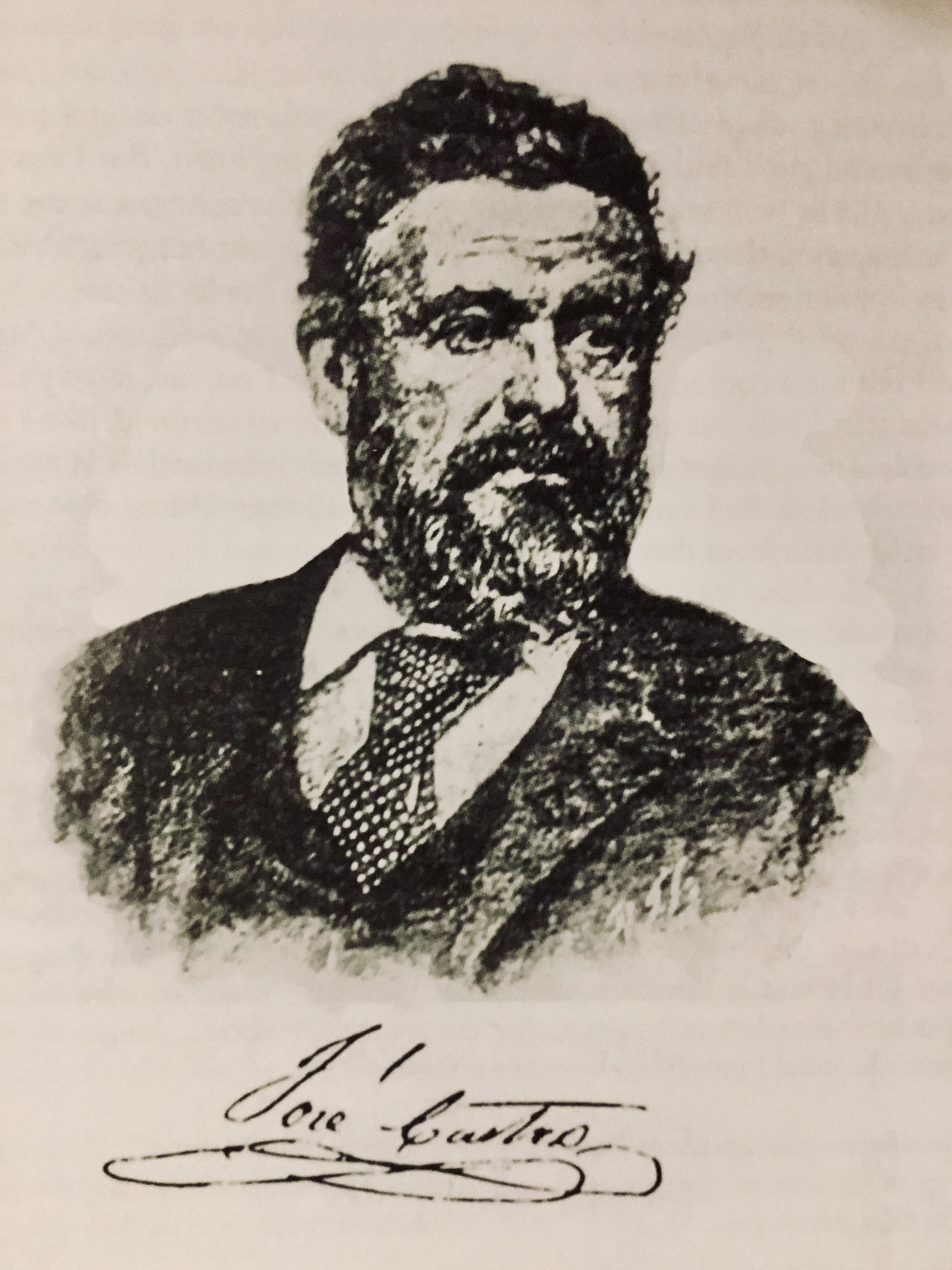 José Antonio Castro (1808-1860), Governor of Alta California, 1835 & President, 1836; First Member of the Legislature, 1835; Commandante-General, 1846-1848; Governor of Baja California, 1853-1860 until assassinated.